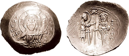 Alexius I Comnenus. 1081-1118. EL Histamenon Nomisma (4.48 gm, 6h). Thessalonica mint. Struck 1081-1082. +KE RO ALEZ', IC XC across field, facing bust of Christ, nimbate, raising hand in benediction, holding Gospels [DIMITI] to left, D EC PO TH T to right, Saint Demetrius, nimbate, standing right, presenting labarum to Alexius, wearing crown and loros, standing facing, each grasping labarum. DOC IV 4; SB 1904. According to DOC, this issue was the very brief first coinage of the Thessalonica mint, which Alexius opened as he passed through in September 1081 on his way to confront the invading Normans under Robert Guiscard. Hendy presumes this type was discontinued in 1082, when the significantly debased type with patriarchal cross replacing the labarum was introduced. However, since DOC IV was written numerous examples of this previously extremely rare type have come out of the Balkans, in fineness ranging from gold-colored electrum to nearly pure silver. Hendy notes an alternate chronology, with the labarum issue being struck during the entire span of the Norman incursion into Greece, through 1084, but dismisses this longer time span based on the sequence of types at Constantinople. Perhaps when the total number of extant specimens is tallied the militant labarum bearing type could be re-dated to the period of the Norman war, 1081-1084. Coin from CNG coins, through Wildwinds.